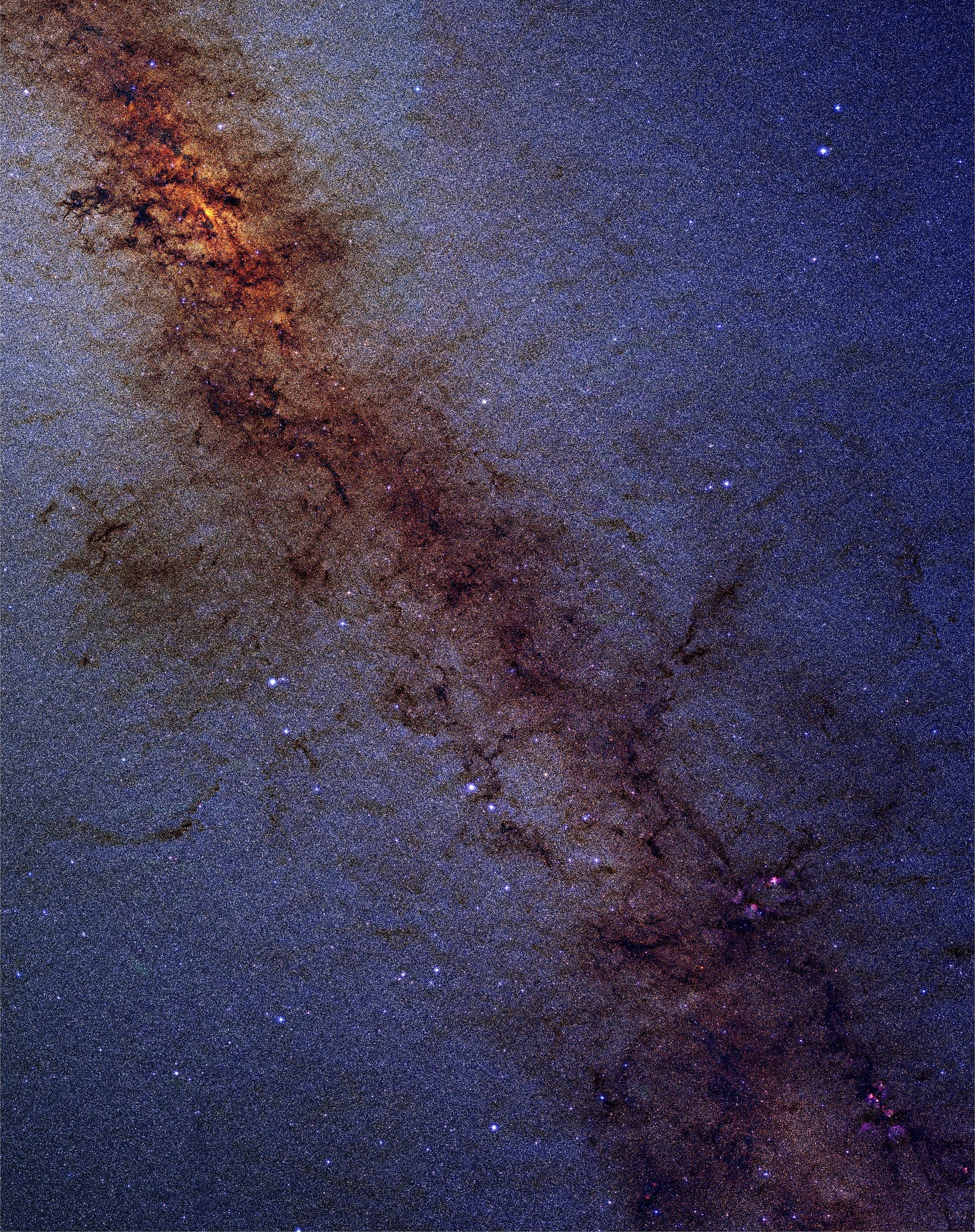 The center of our Milky Way Galaxy is located in the constellation of Sagittarius. In visible light the lion's share of stars are hidden behind thick clouds of dust. This obscuring dust becomes increasingly transparent at infrared wavelengths. This 2MASS image, covering a field roughly 10 x 8 degrees (about the area of your fist held out at arm's length) reveals multitudes of otherwise hidden stars, penetrating all the way to the central star cluster of the Galaxy. This central core, seen in the upper left portion of the image, is about 25,000 light years away and is thought to harbor a supermassive black hole. The reddening of the stars here and along the Galactic Plane is due to scattering by the dust; it is the same process by which the sun appears to redden as it sets. The densest fields of dust still show up in this mosaic. Also evident are several nebulae to the lower right, including the Cat's Paw Nebula. The 2MASS analysis software has identified and measured the properties of almost 10 million stars in this spectacular field alone.